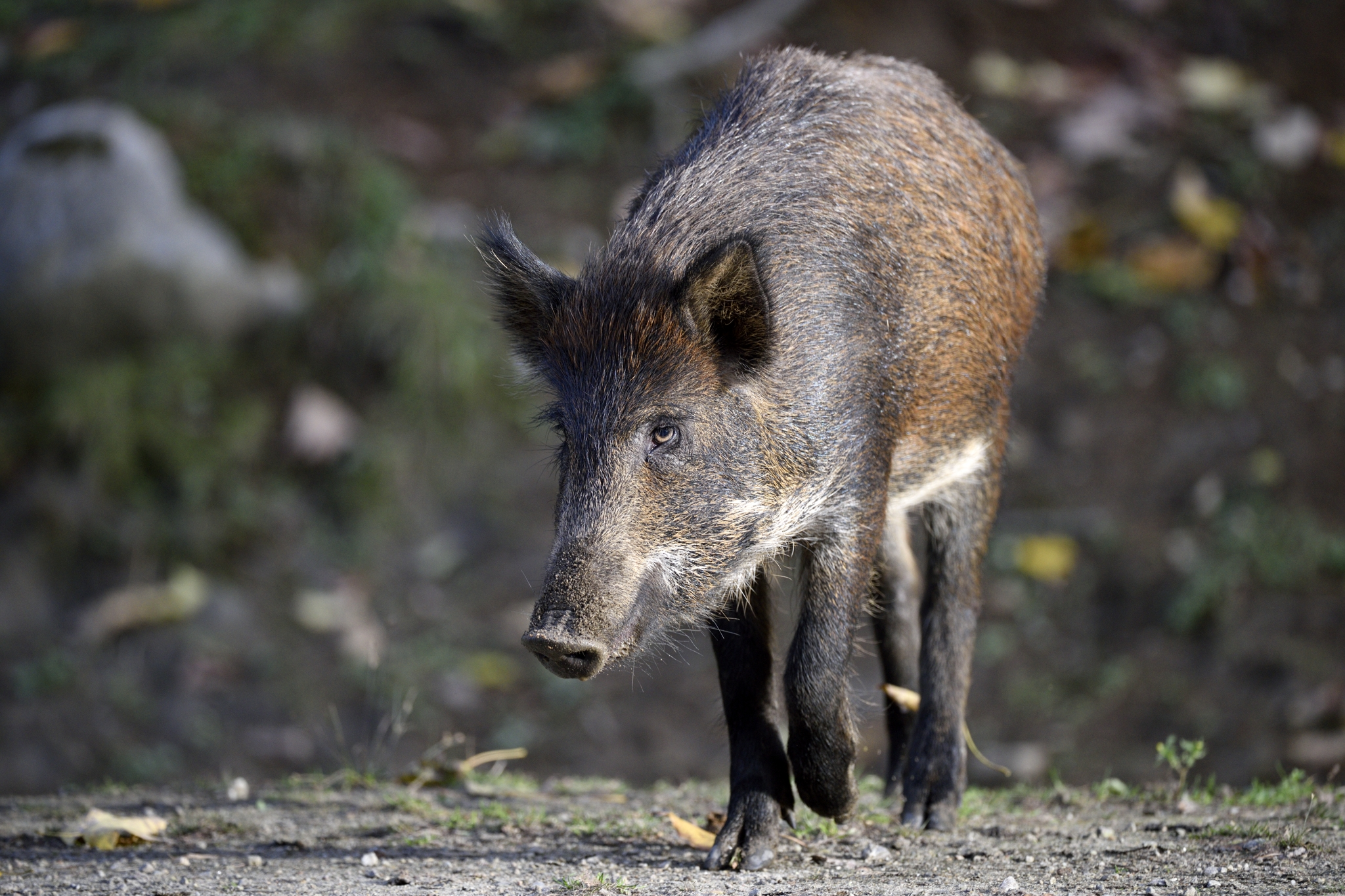 I photographed this wild boar lying on the floor